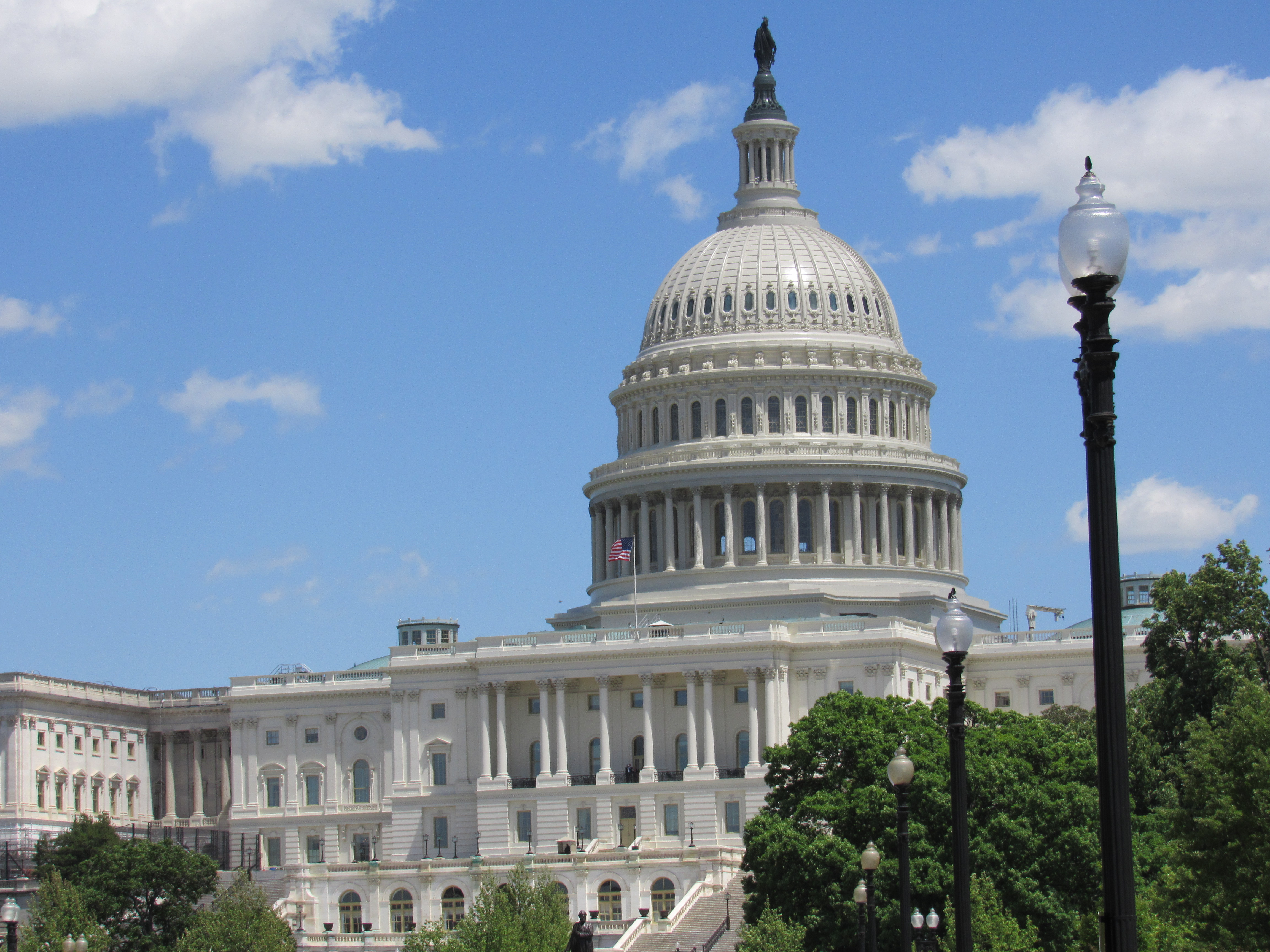 The United States Capitol in Washington, D.C. from the southwest.